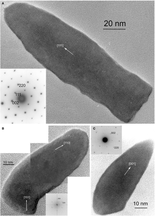 HRTEM images of magnetite magnetosomes with highly anisotropic, elongated, pointed habits but different elongation directions. (A) A magnetosome from an unidentified freshwater rod, elongated parallel to [111], with the corresponding selected area electron diffraction (SAED) pattern in the lower left. (B) A composite image of a curved, fts magnetosome from the magnetotactic Nitrospirae strain HSMV-1, elongated parallel to [110], with the corresponding Fourier transform in the lower right. (C) A dts magnetosome form the magnetotactic Deltaproteobacteria strain AV-1, elongated parallel to [001], with the corresponding SAED pattern in the upper left. All three images were obtained with the electron beam parallel to [1–10].